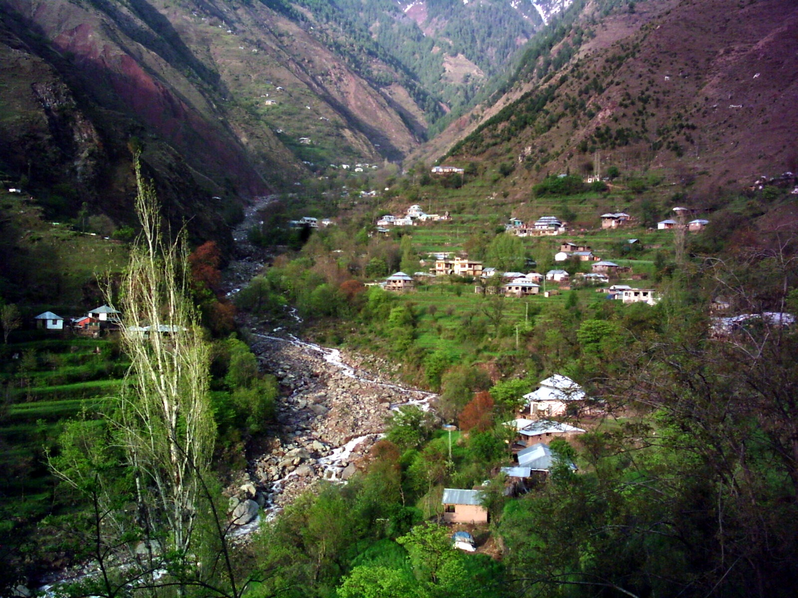 Kanshian Lower